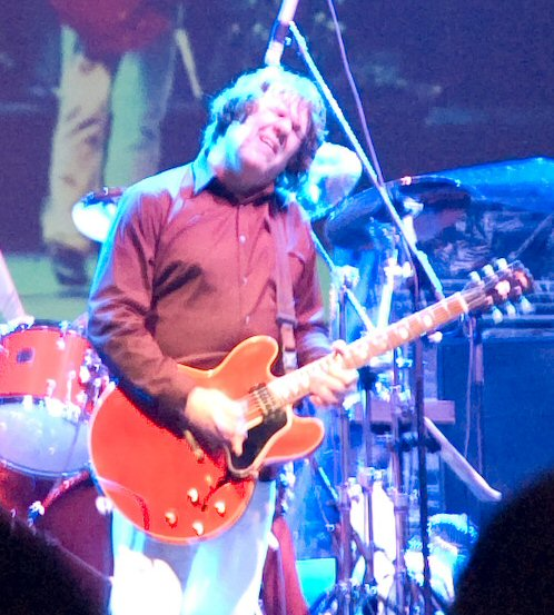 Gary Moore